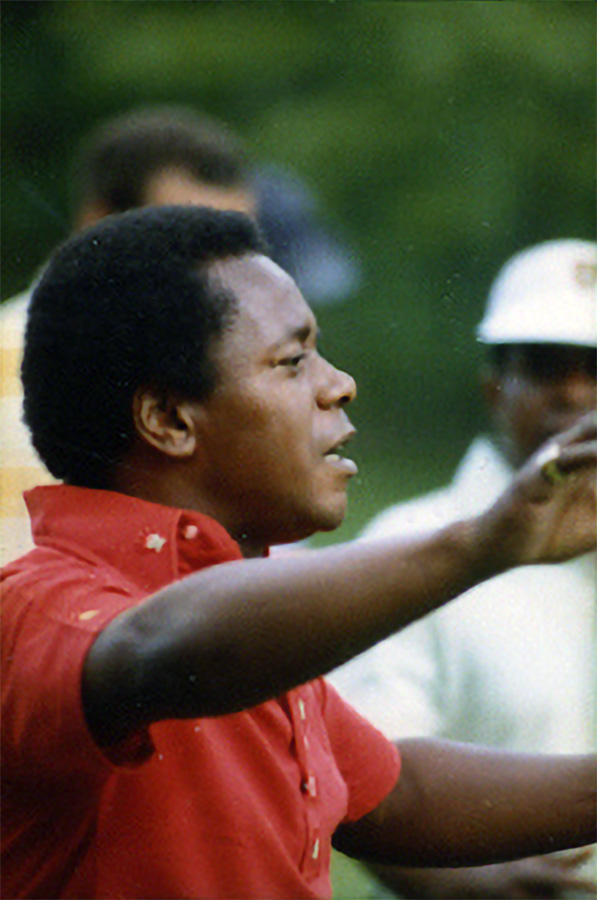 The photo contact sheet, identified as A4473 by the White House Photographic Office (WHPO), is housed at the Gerald R. Ford Presidential Library, a branch of the National Archives and Records Administration (NARA). This file is a 200 dpi photo contact sheet having images from roll of film A4473 of the August 9, 1974 - January 20, 1977 Gerald R. Ford White House Photographic Office Series A0001-A9999 and B0001-B2886 photographs. The date on the photo contact sheet is the date the roll of film was processed, not necessarily the date the photographs were taken. See table below for additional details.